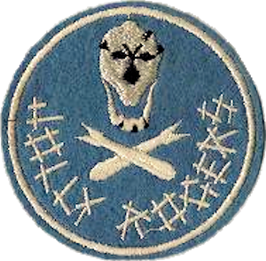 Emblem of the USAAF 90th Bombardment Group